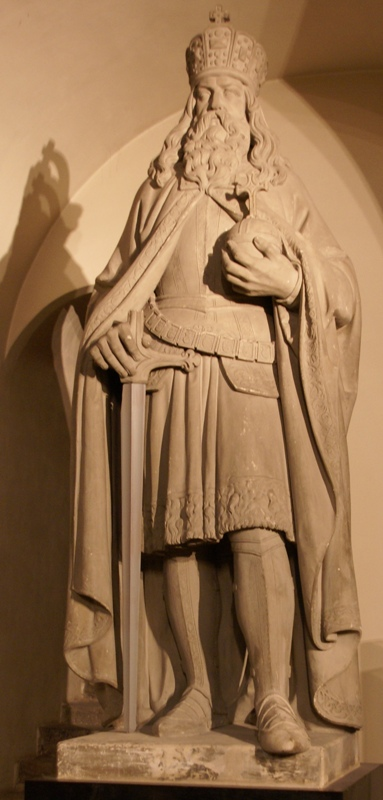 St Servaasbasiliek in Maastricht, statue of Carolus Magnus, by Willem Geefs, 1843.